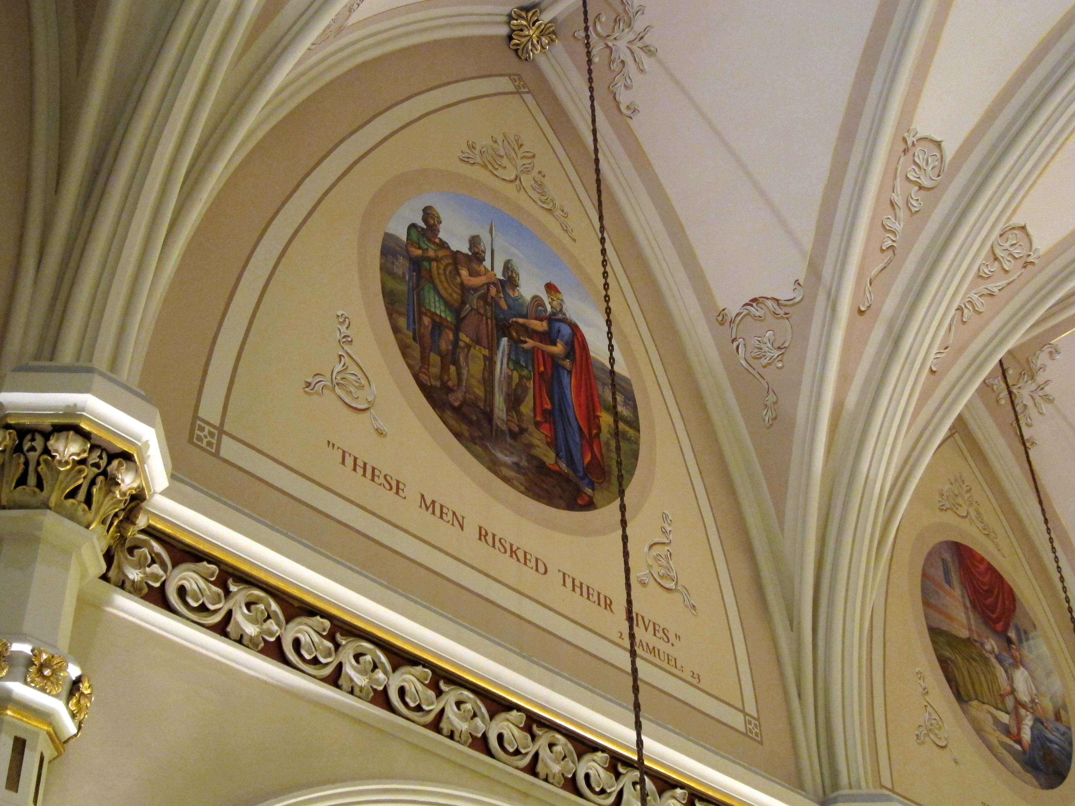 Saint John the Evangelist (Delphos, Ohio), interior, mural, 2 Samuel 23